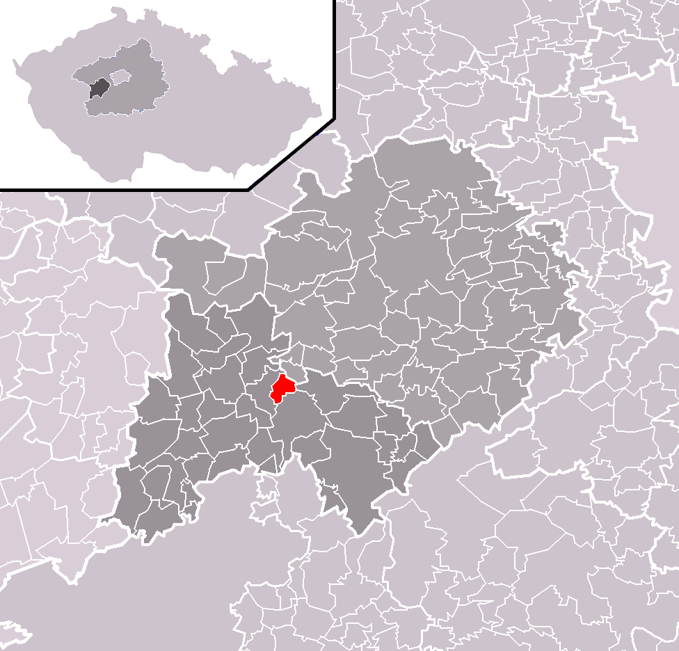 Location of Otmíče municipality within Beroun District and administrative area of Hořovice as a Municipality with Extended Competence.